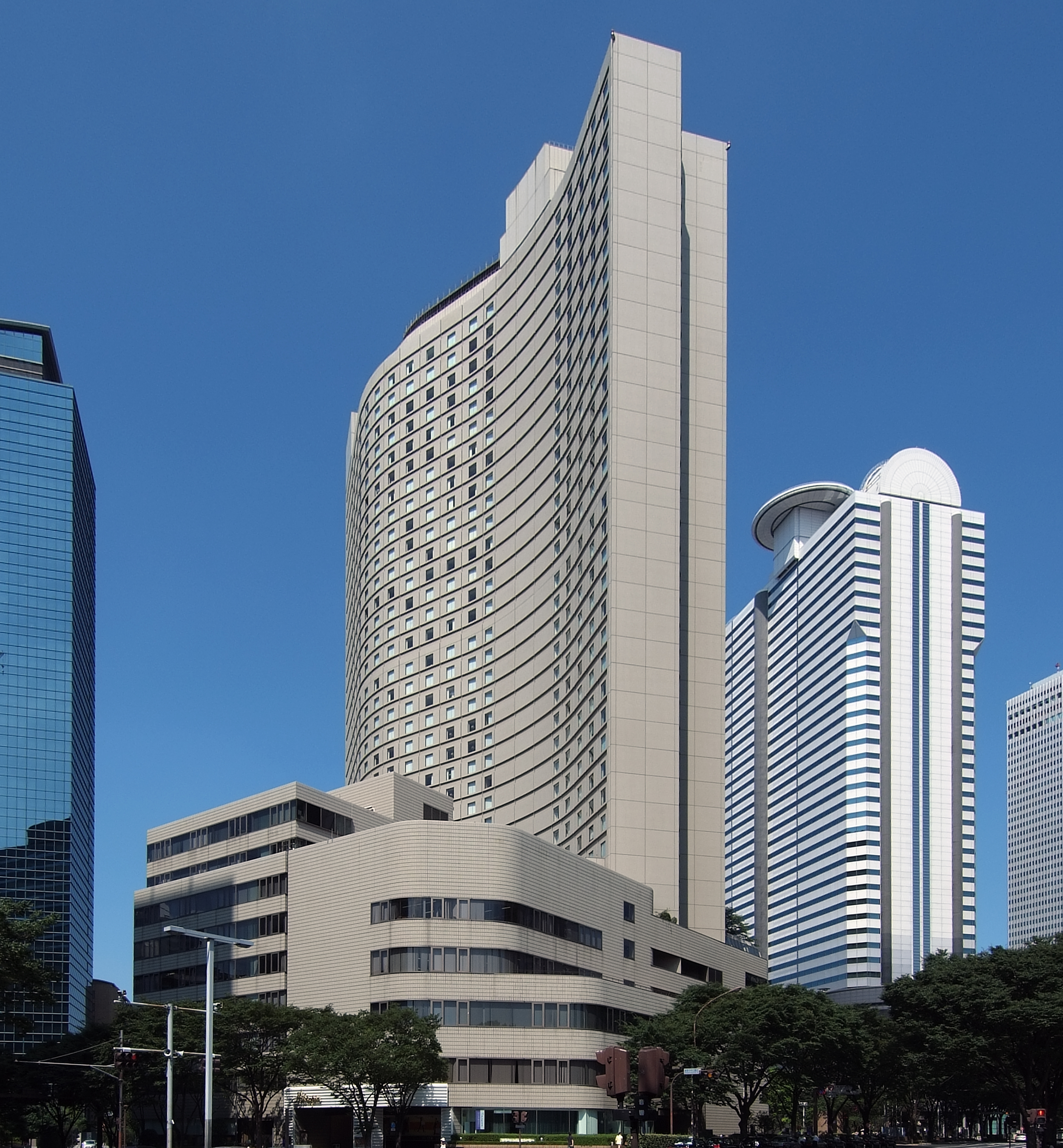 Shinjyuku International Building (Hilton Tokyo), at shinjyu-ku tokyo Japan.